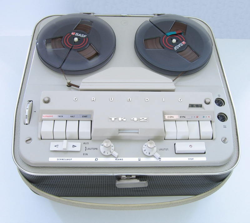 Grundig TK42 reel-to-reel tape recorder (circa 1962)